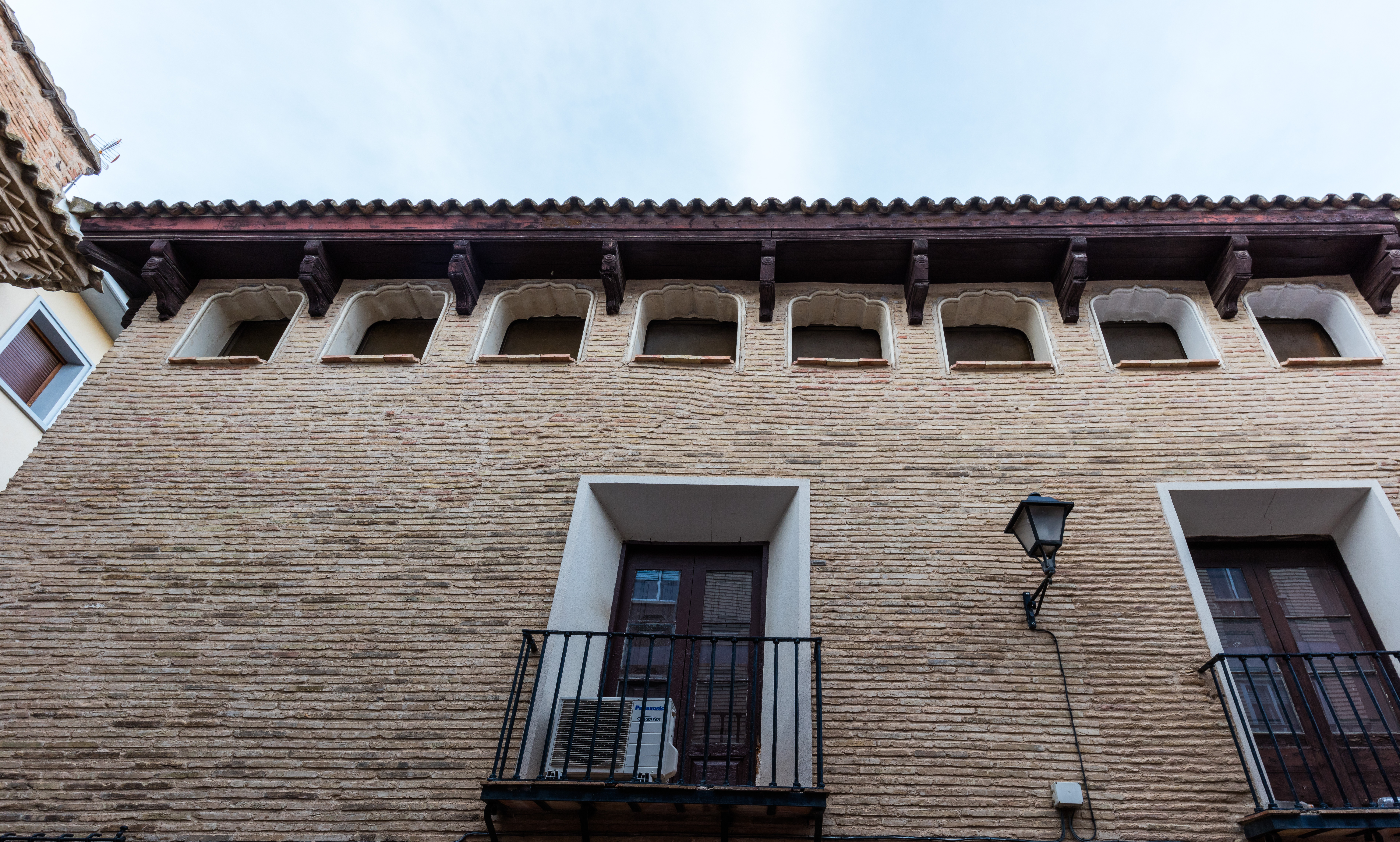 Building in Jota Aragonesa 3 y 5 St, Alagón, Zaragoza, Spain